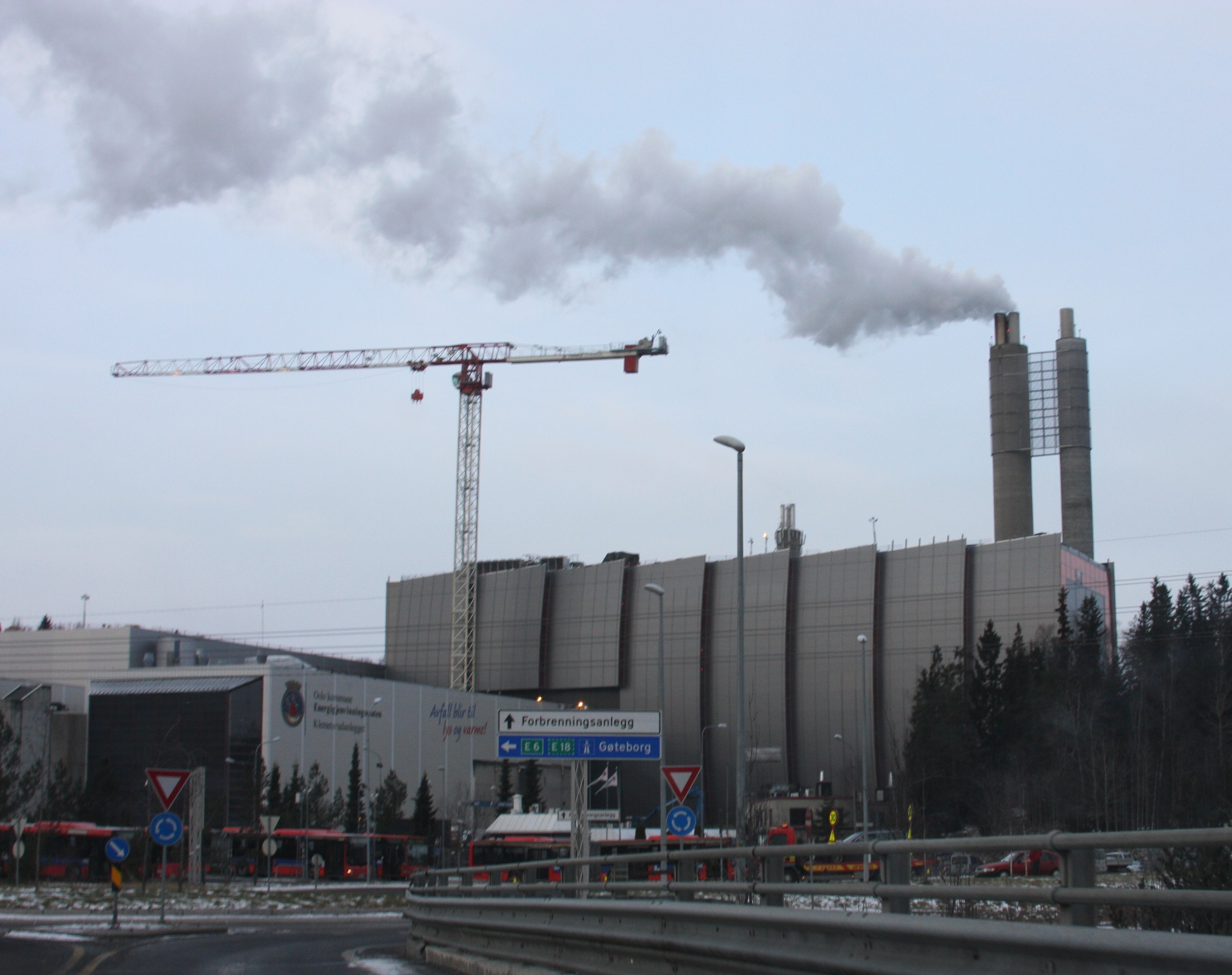 Klemetsrud energigjenvinningsanlegg, a thermal power plant burning city vaste. Klemetsrud, Oslo, Norway. Production annually: 300 GWh.